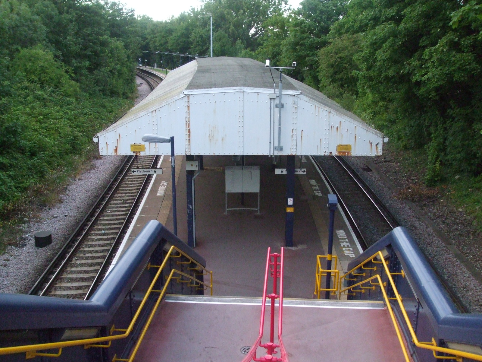 Platforms viewed northwards from the stairs at Sutton Common station. There used to be a small building at street level.